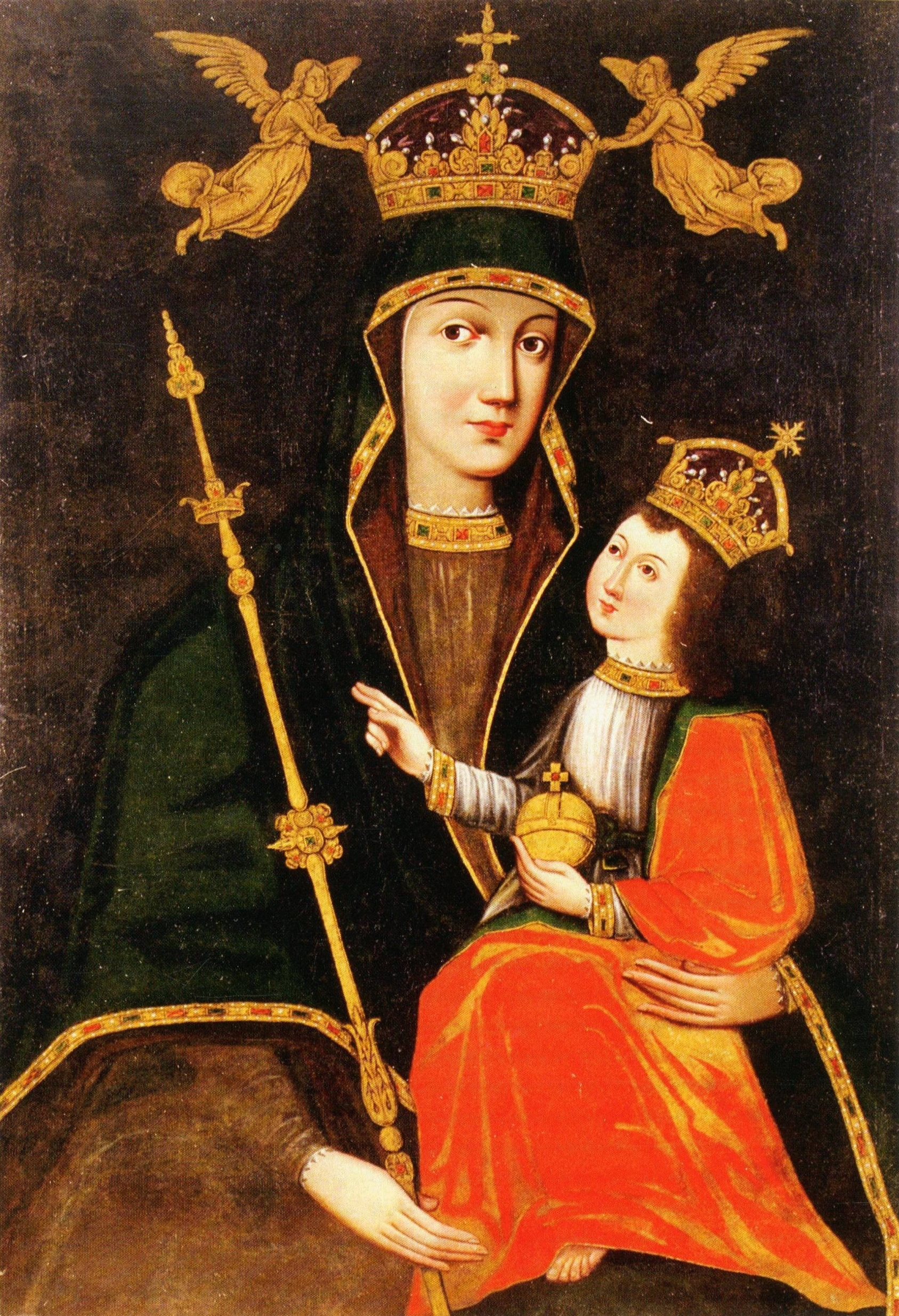 THE HOLY VIRGIN OF BYALYNICHY. Mid 17th c. Canvas, oil. Cementery Church, Snou, Niasvizh district, Minsk region.